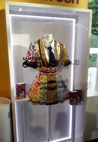 A costume used by a Thai idol group BNK48 in a single called "Koisuru Fortune Cookie".